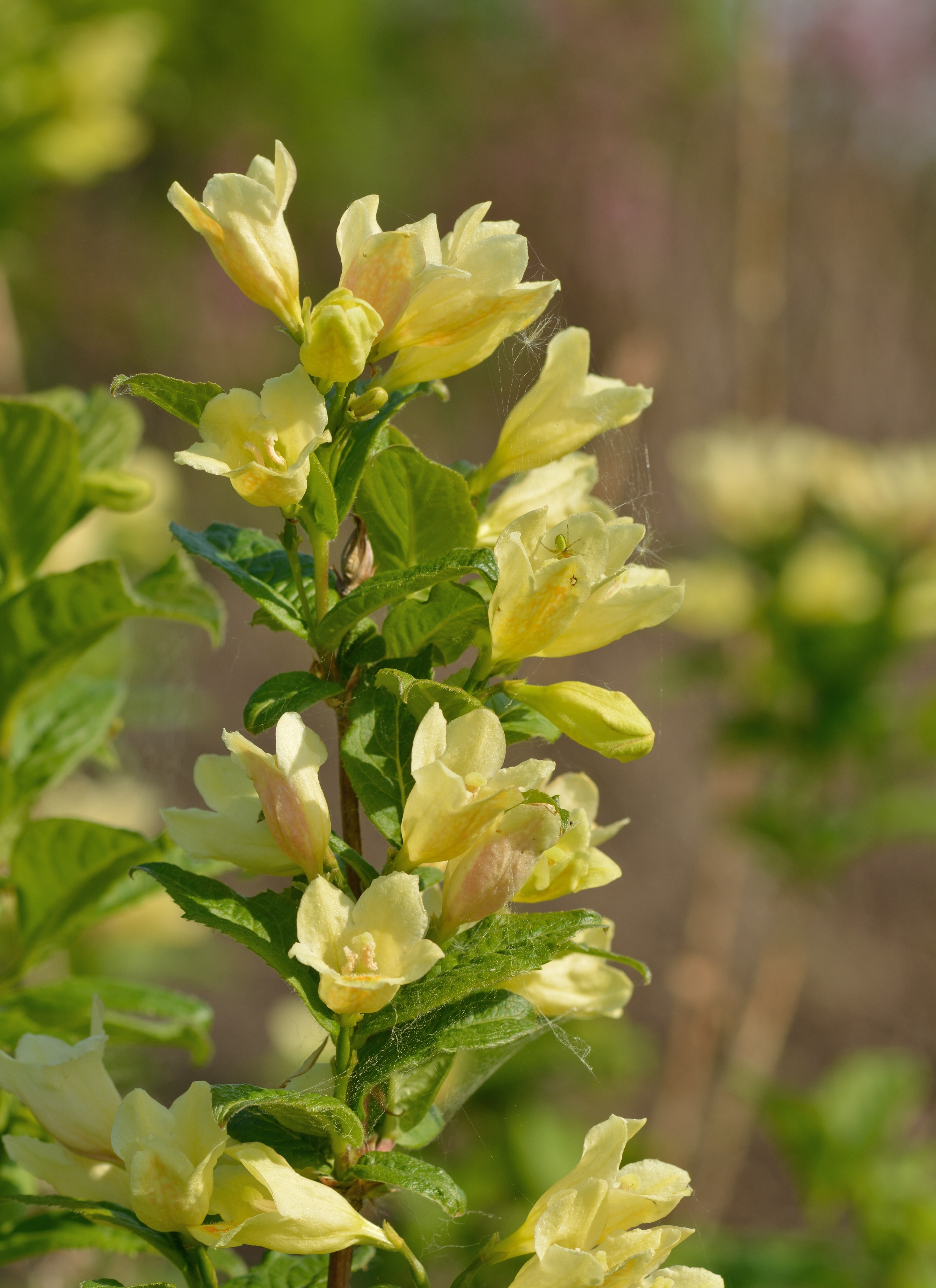 Weigela middendorffiana in the Tallinn Botanical Garden